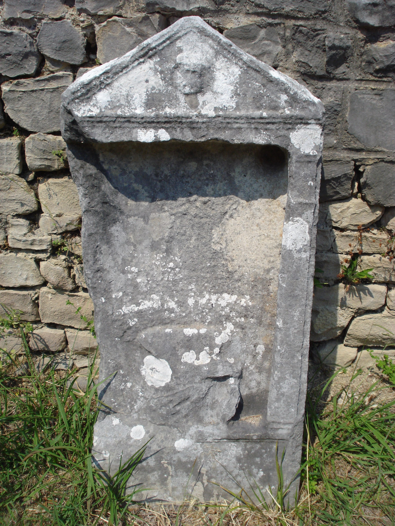 The Church of St. George (14th century), Tučepi, Croatia - gravestone (presumably) of Pietro I Candiano, Doge of Venice (died in 887 at the Battle of Makarska)